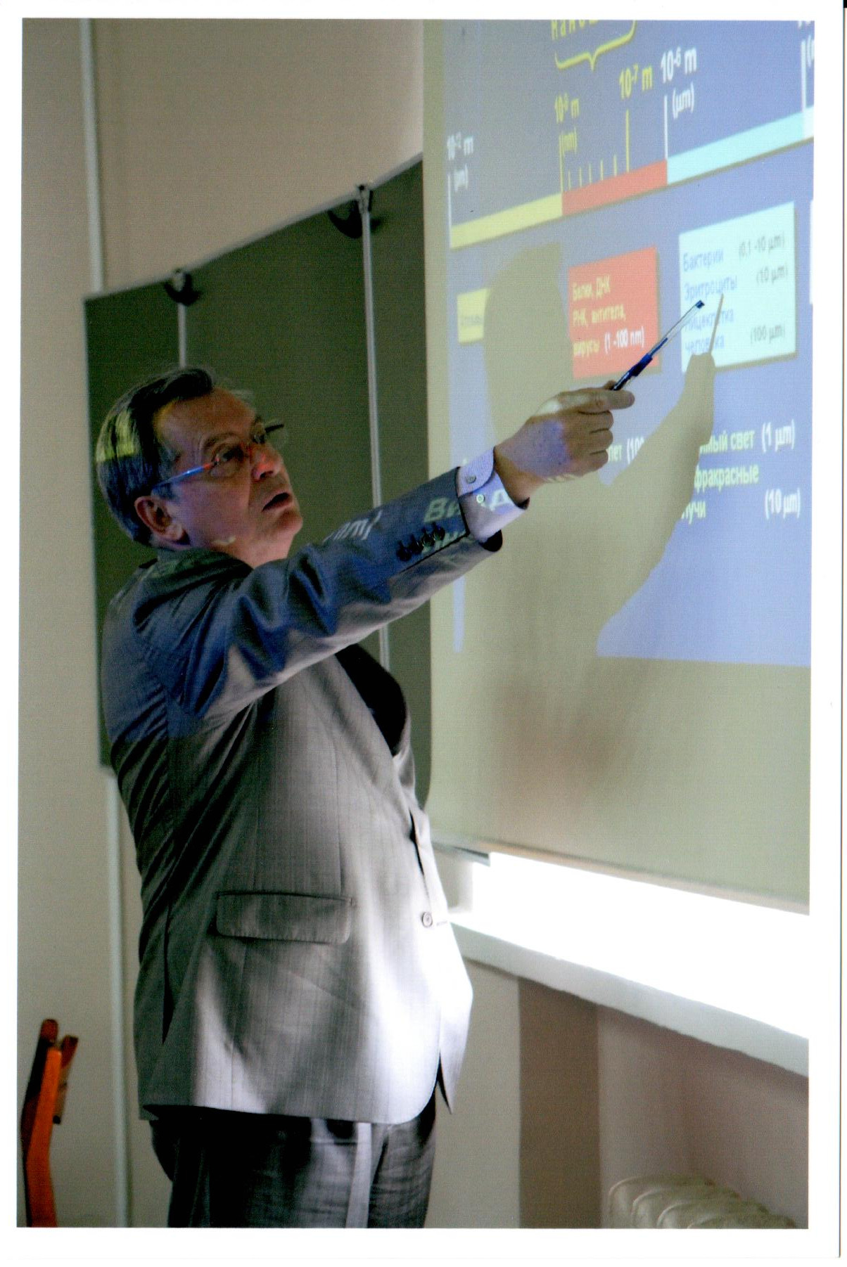 Vsevolod Tkachuk is a russian biologist, Academician (2006) of the Russian Academy of Sciences, Dean of the MSU Faculty of Fundamental Medicine at Moscow State University (MSU FFM), Head of the Department of Functional Analysis and its Applications at MSU Faculty of Fundamental Medicine, Professor, Dr.Sc.